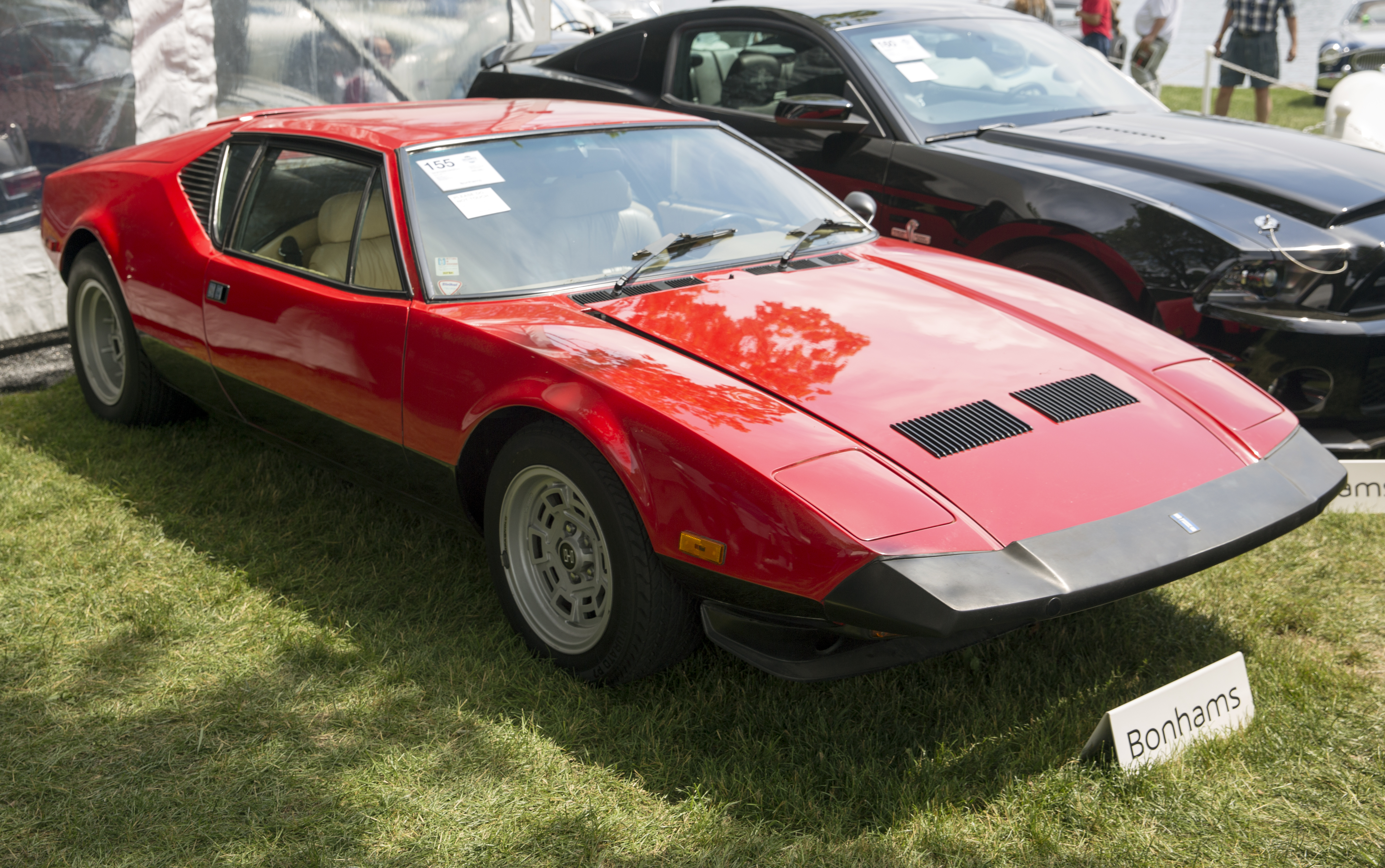 A 1983 De Tomaso Pantera GTS, from Carroll Shelby's personal collection. Sold for $182,560 at the 2018 Greenwich Concours d'Elegance. 5-speed, 266hp 351ci V8. One of only 138 Pantera GTS built for the US market, and less 7,500 miles on the odometer.